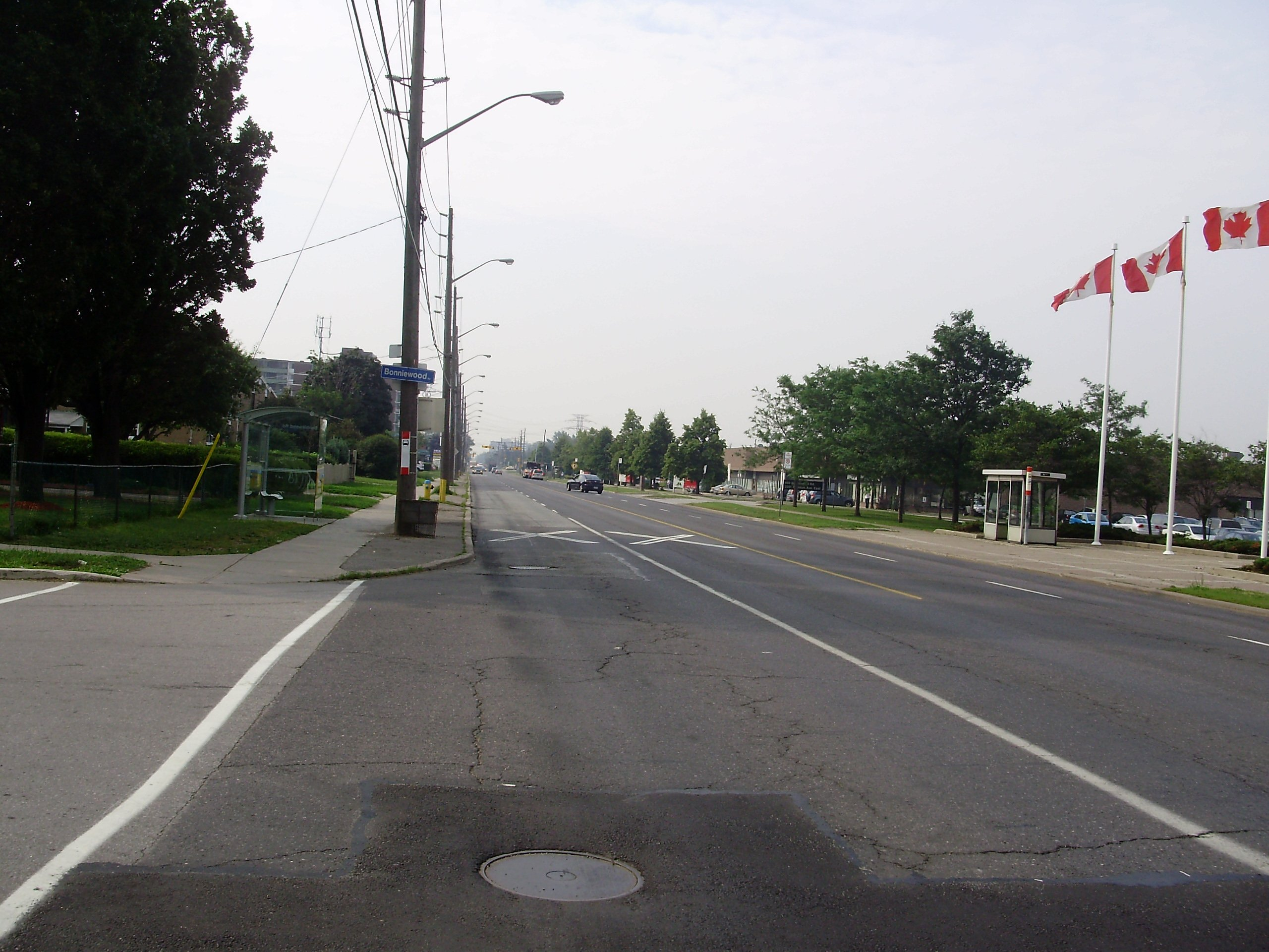 Looking south down Birchmount Road at its intersection with Bonniewood Road in Scarborough, Canada.